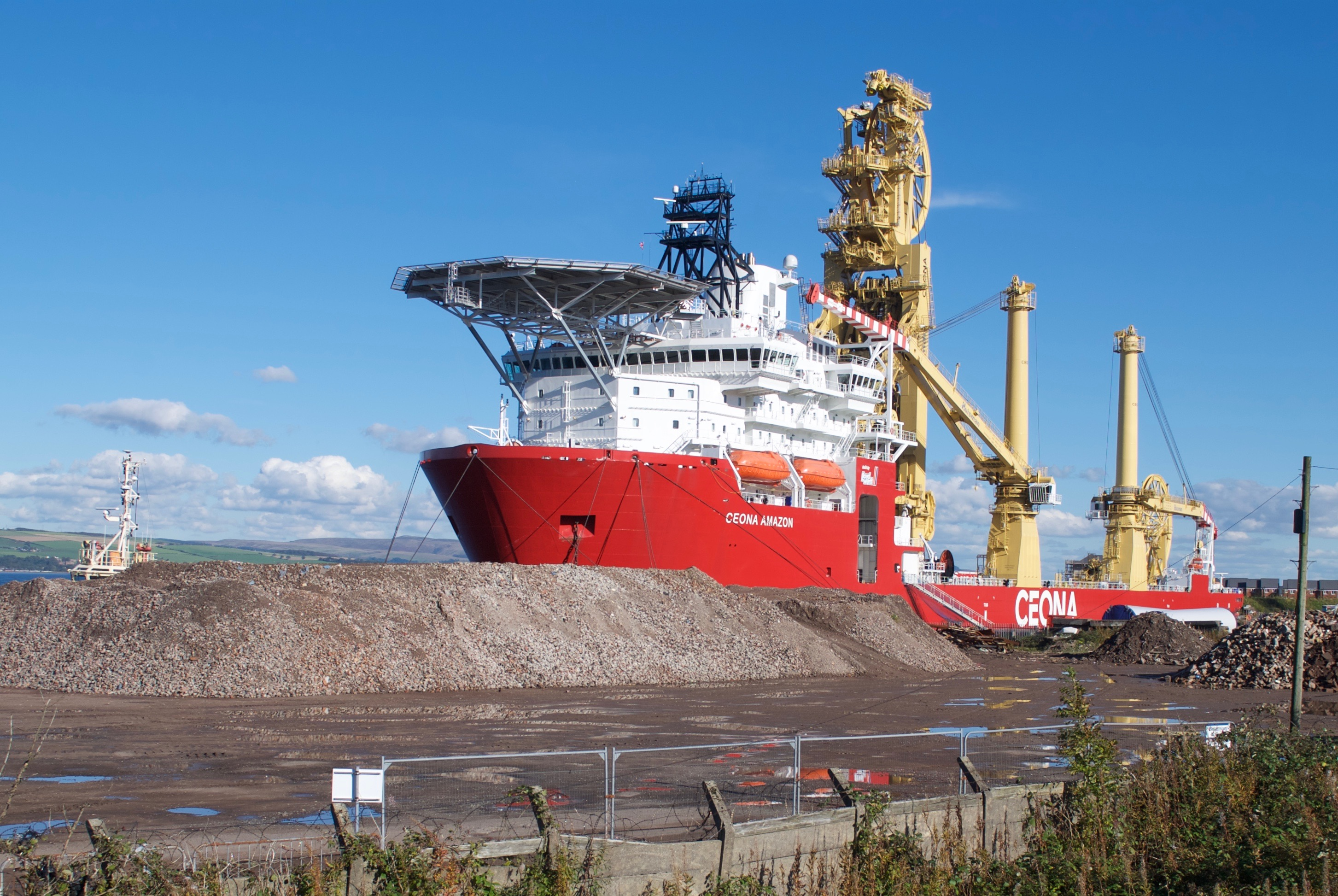 Pipe-laying ship Ceona Amazon at Inchgreen quay, seen from Pottery Street, Greenock